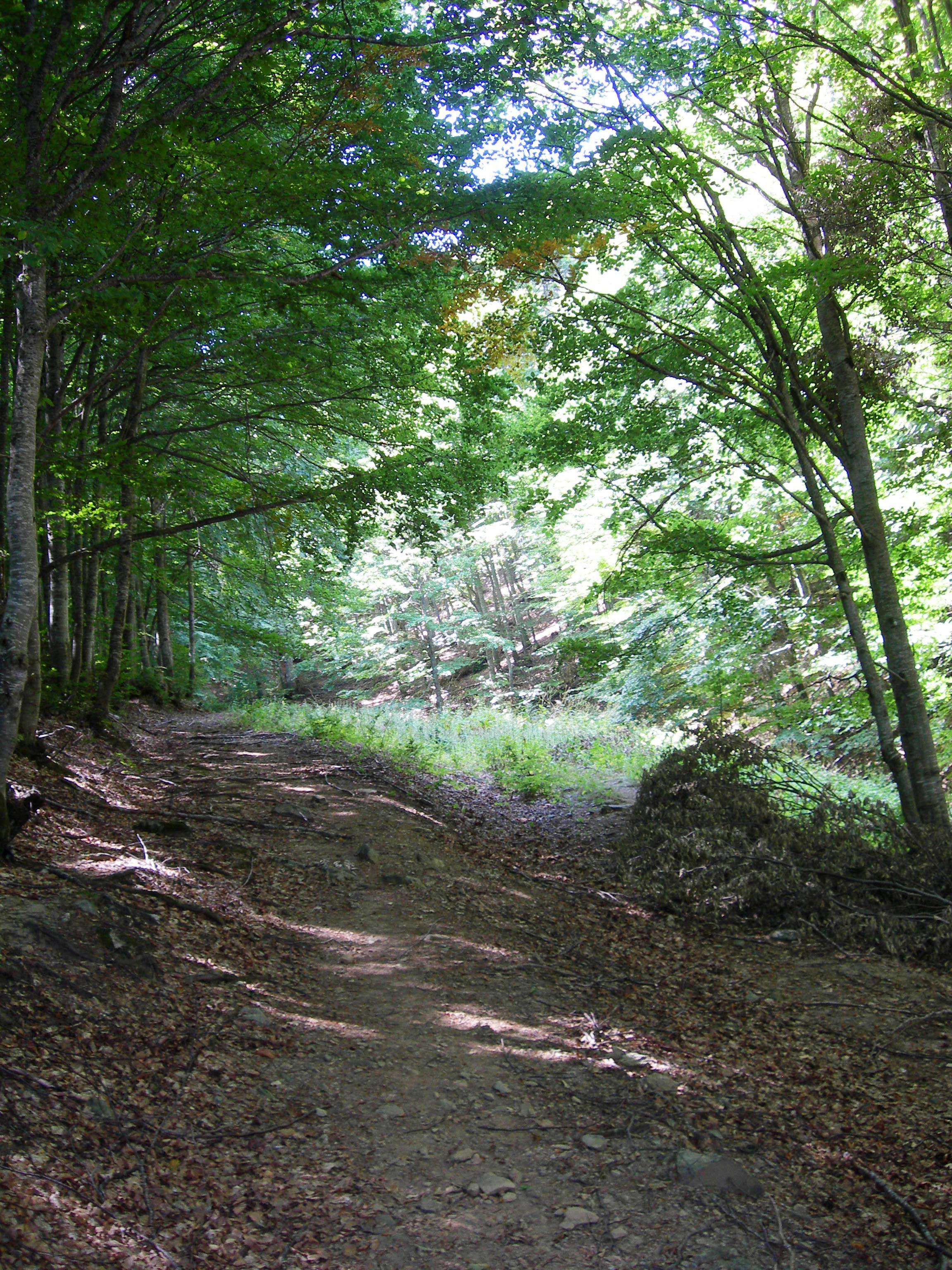 Place of ambush of priest papa-Stavros Tsamis , in the forest of Pisoderi , Florina , Greece